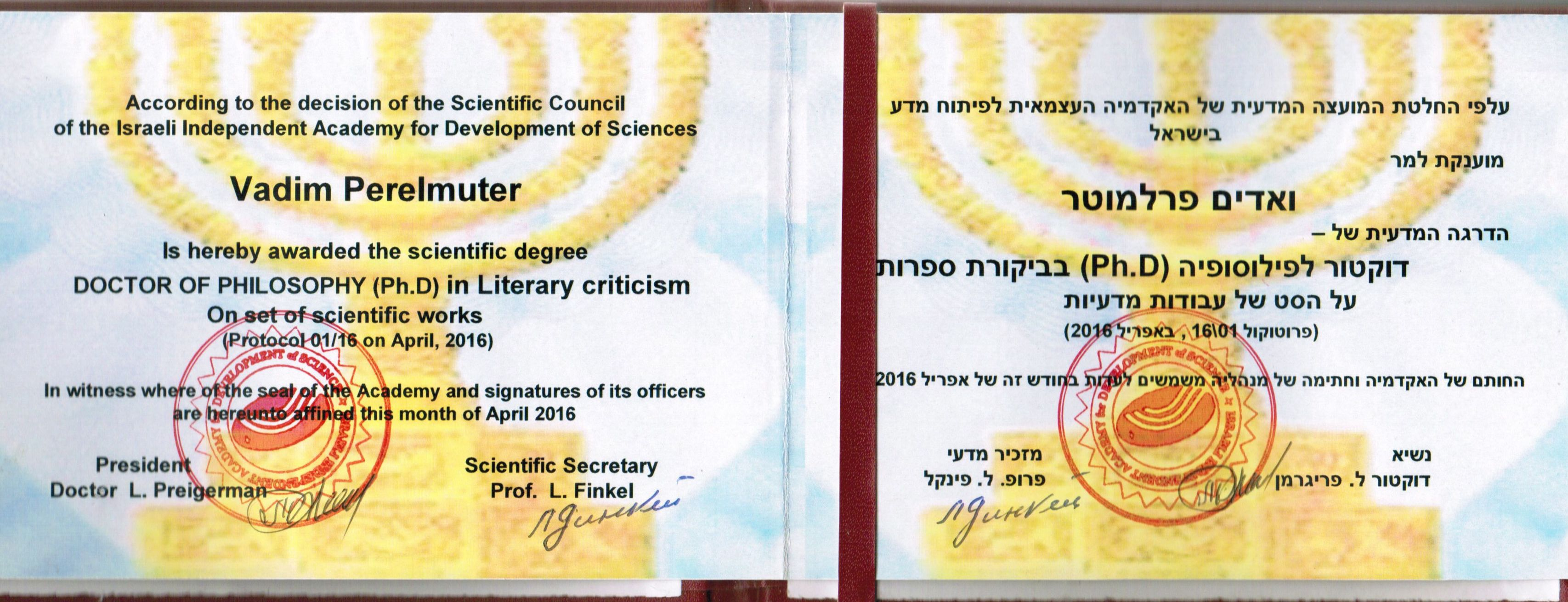 Vadim Perelmuter. Doctor of Philosophy. Diploma